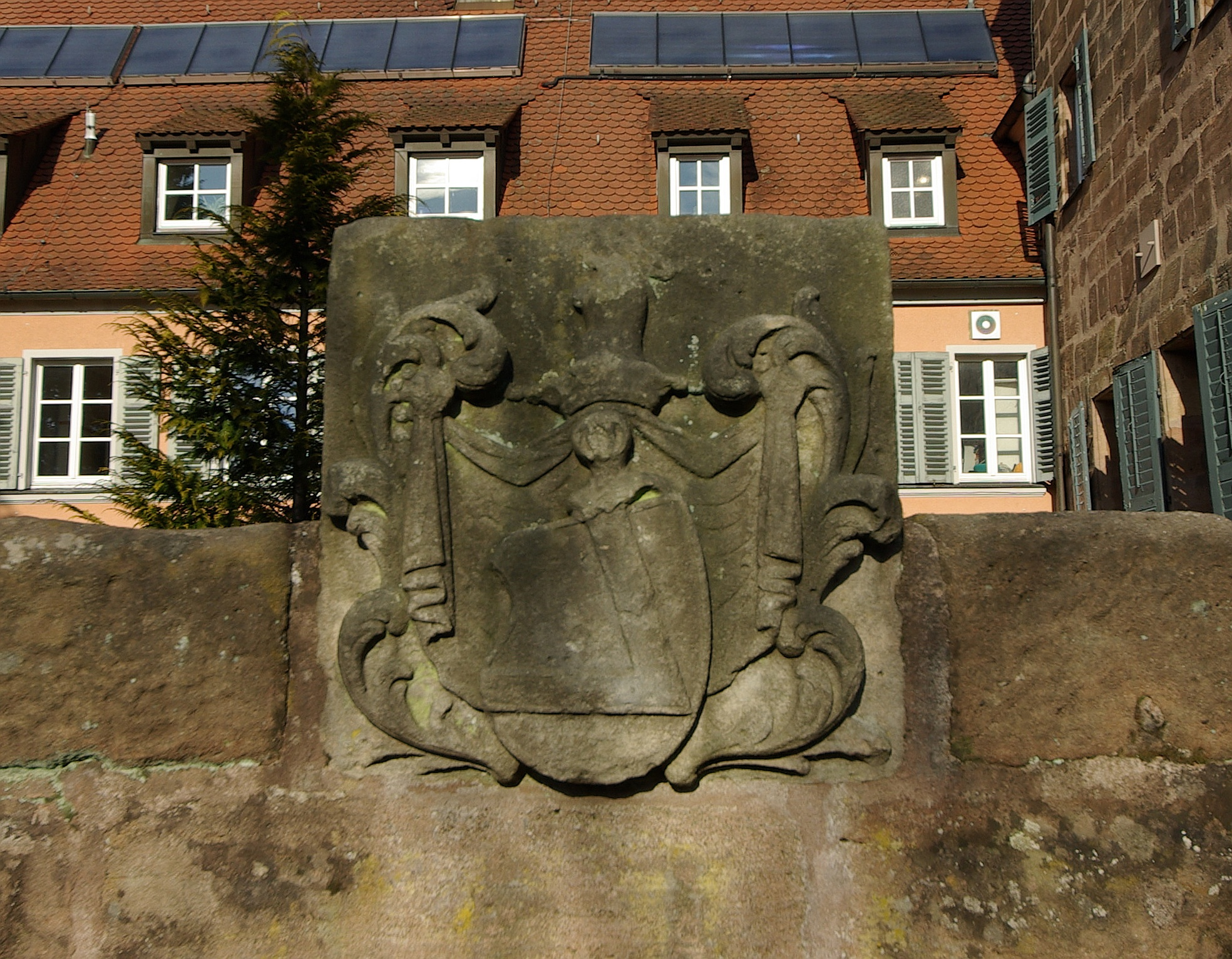 Coats of arms of Haller von Hallerstein family